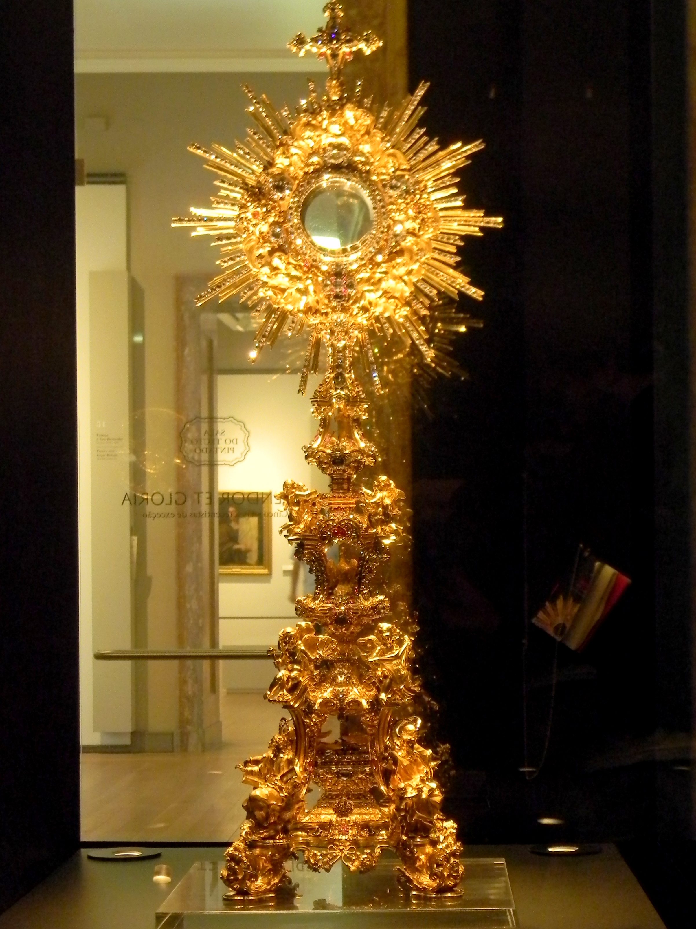 The large Patriarchal Monstrance was a gift from king D. João V to the Patriarchal Cathedral of Lisbon, and is made of solid gold, diamonds, rubies, sapphires and emeralds. It was commissioned in 1748 and finished in the second half of the 18th century.